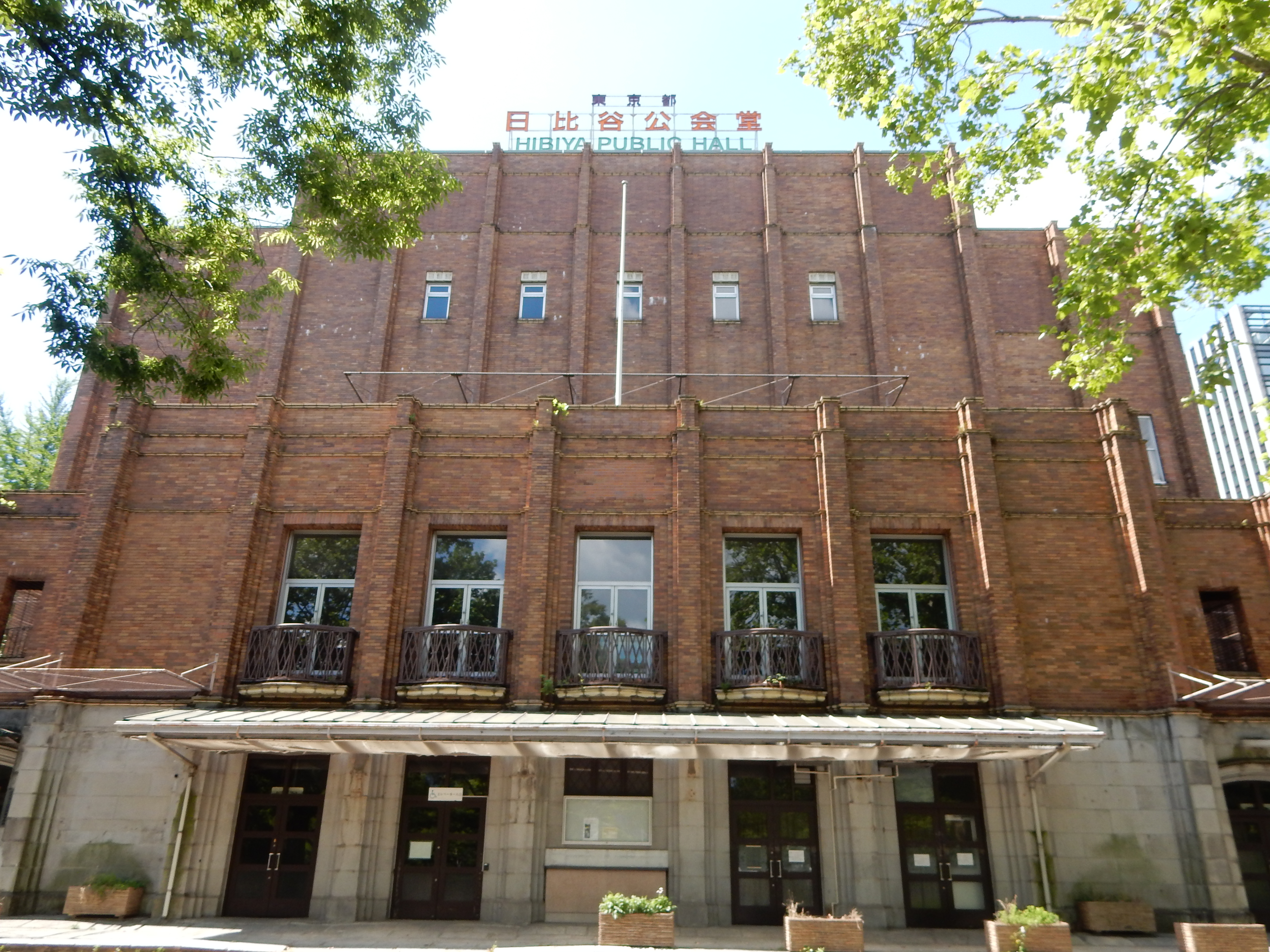 Hibiya Public Hall (日比谷公会堂), located at 1-3 Hibiya Kōen, Chiyoda, Tokyo, Japan